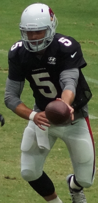 Drew Stanton # 5 handing the ball off